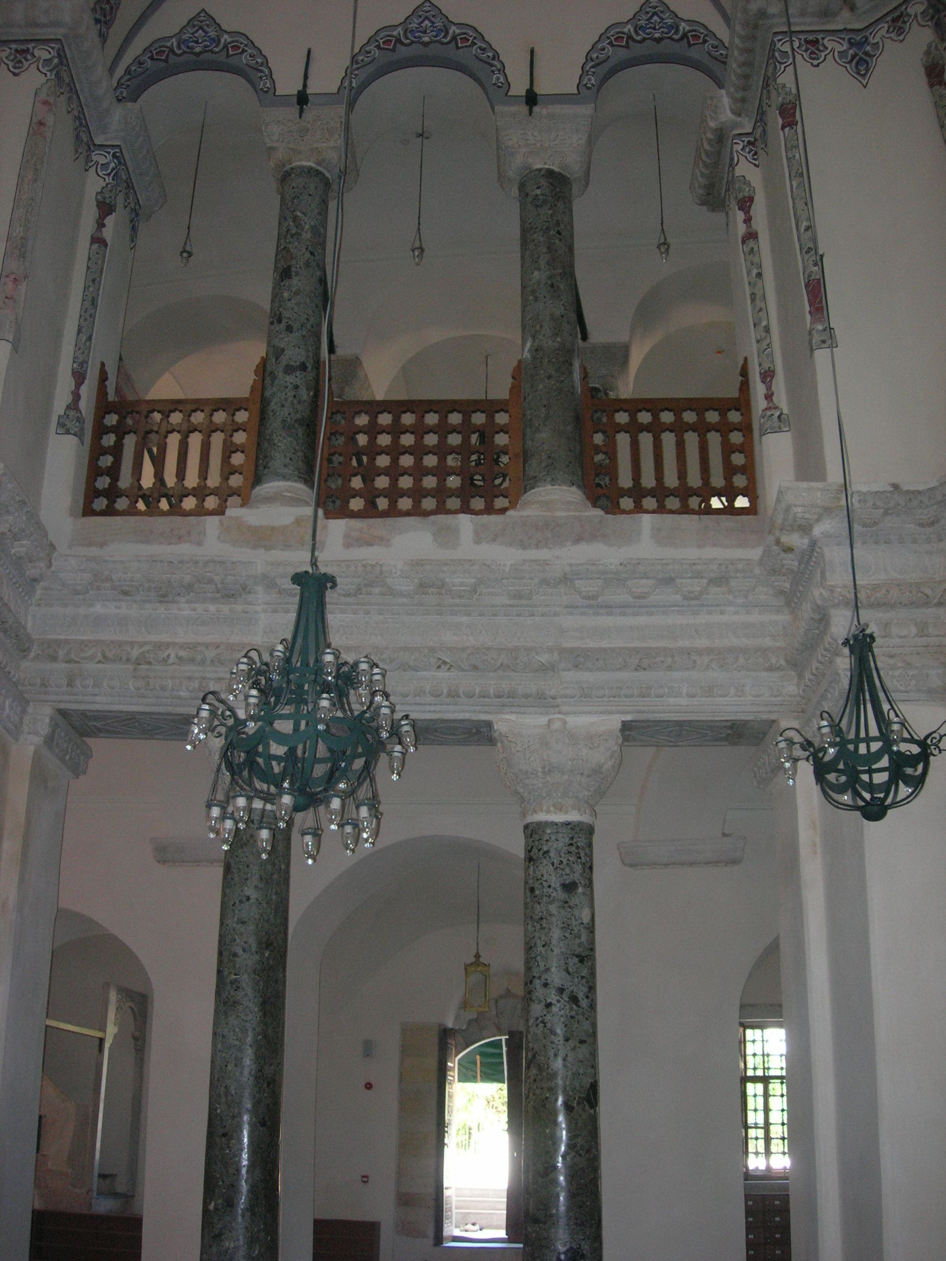 The Colonnade of the former Church of Saints Sergius and Bacchus( today mosque of Little Hagia Sophia) in Istanbul